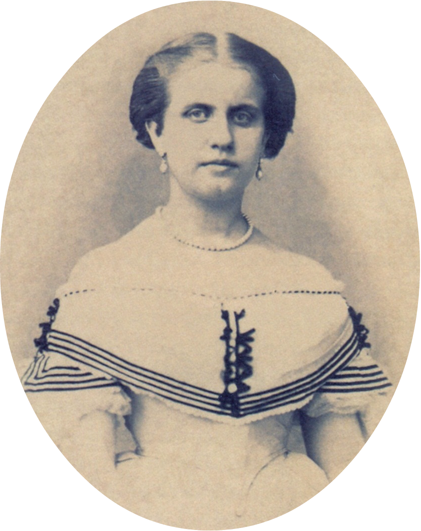 Princess Leopoldina, daughter of Emperor Pedro II of Brazil